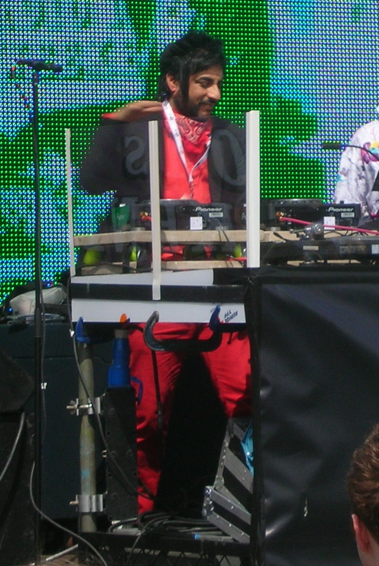 Bobby Friction DJing with Nihal (who is out of shot) at the Radio 1 Big Weekend in Preston. Also available on Flickr